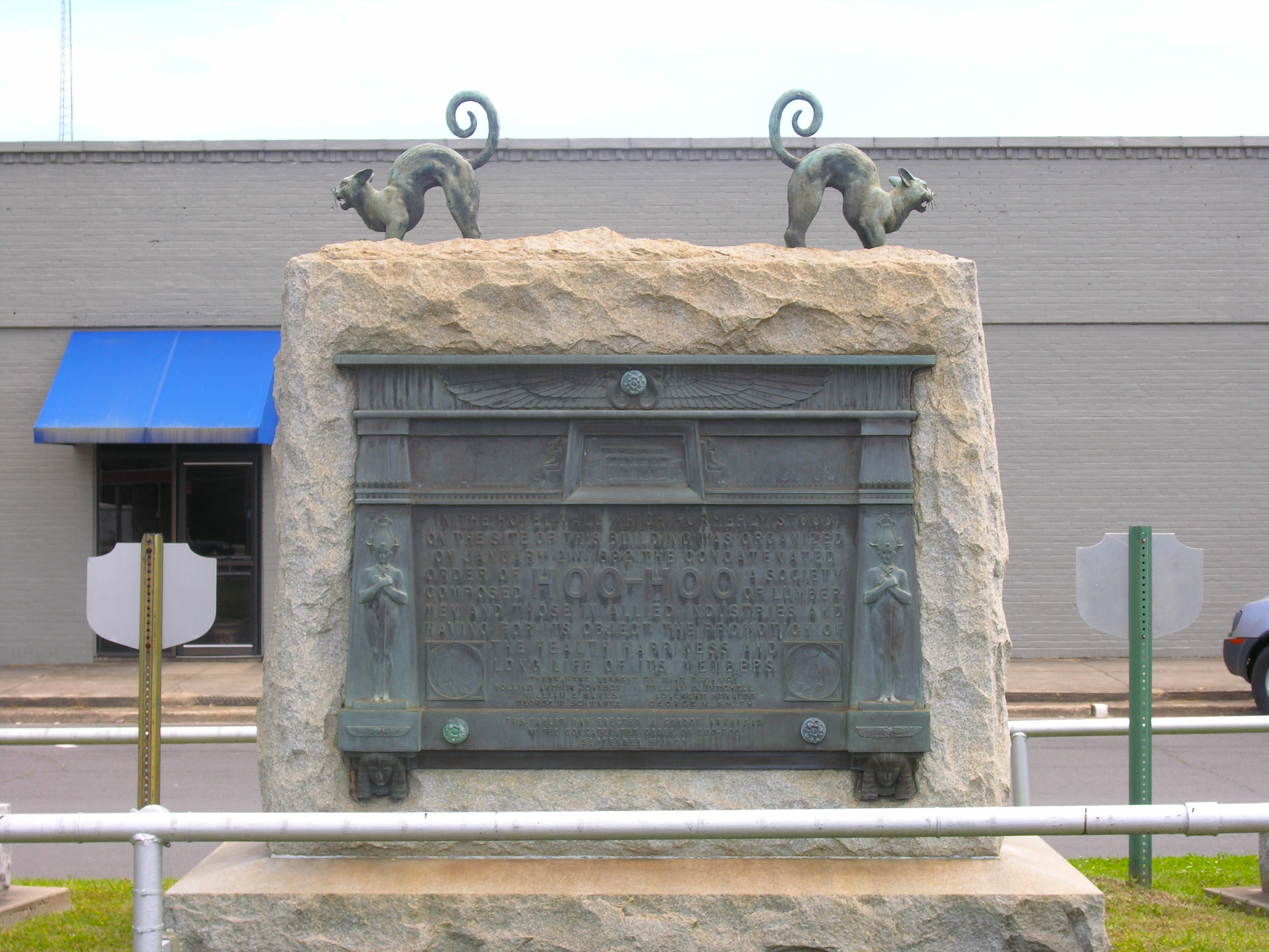 Plaque dedicating the monument to the International Order of the Hoo Hoo, in Gurdon, Arkansas. The side of the monument facing the Union Pacific railroad (1st Street is behind).